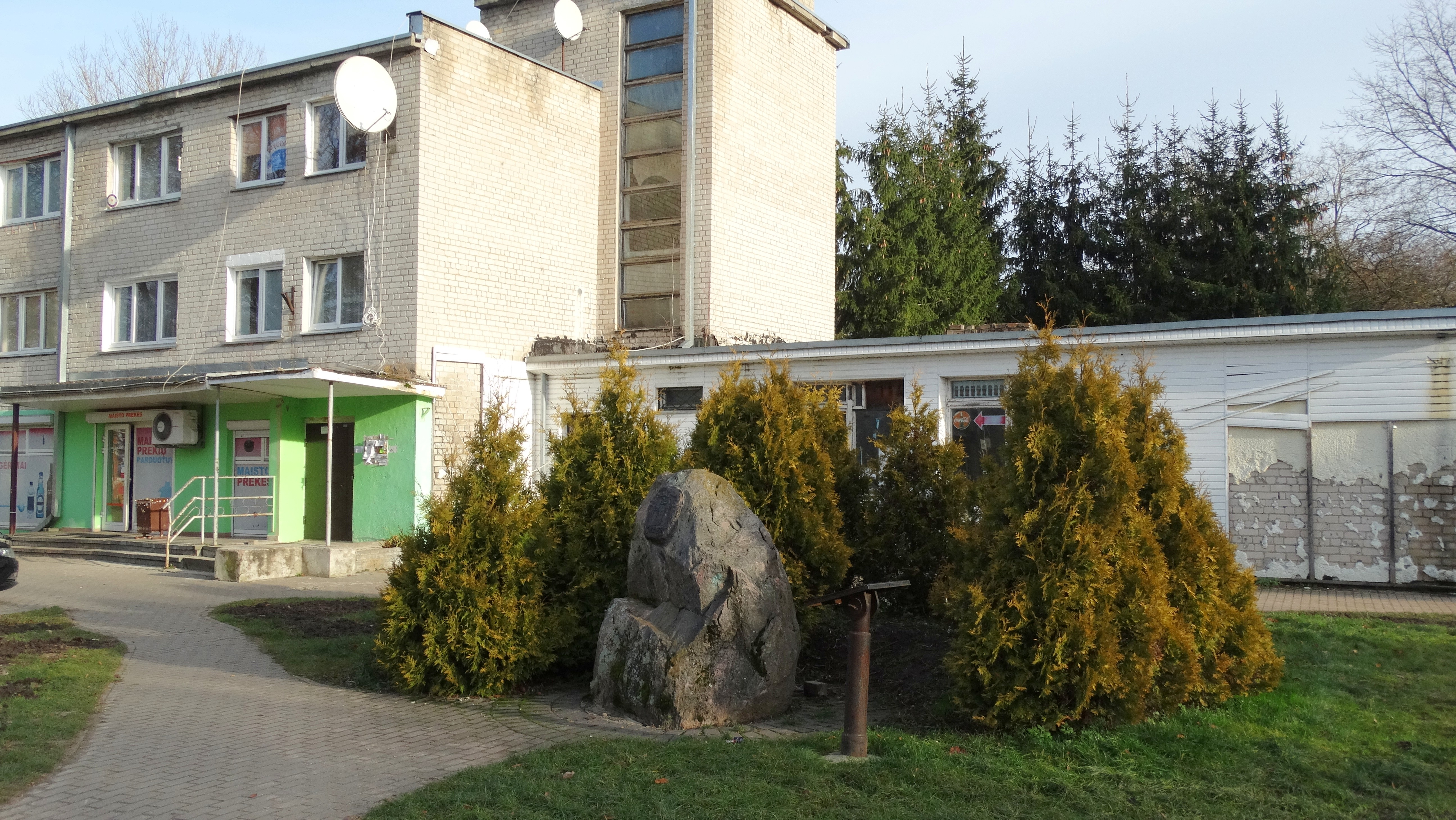 Memorial stone 635 years, Trakų Vokė, Vilnius, Lithuania